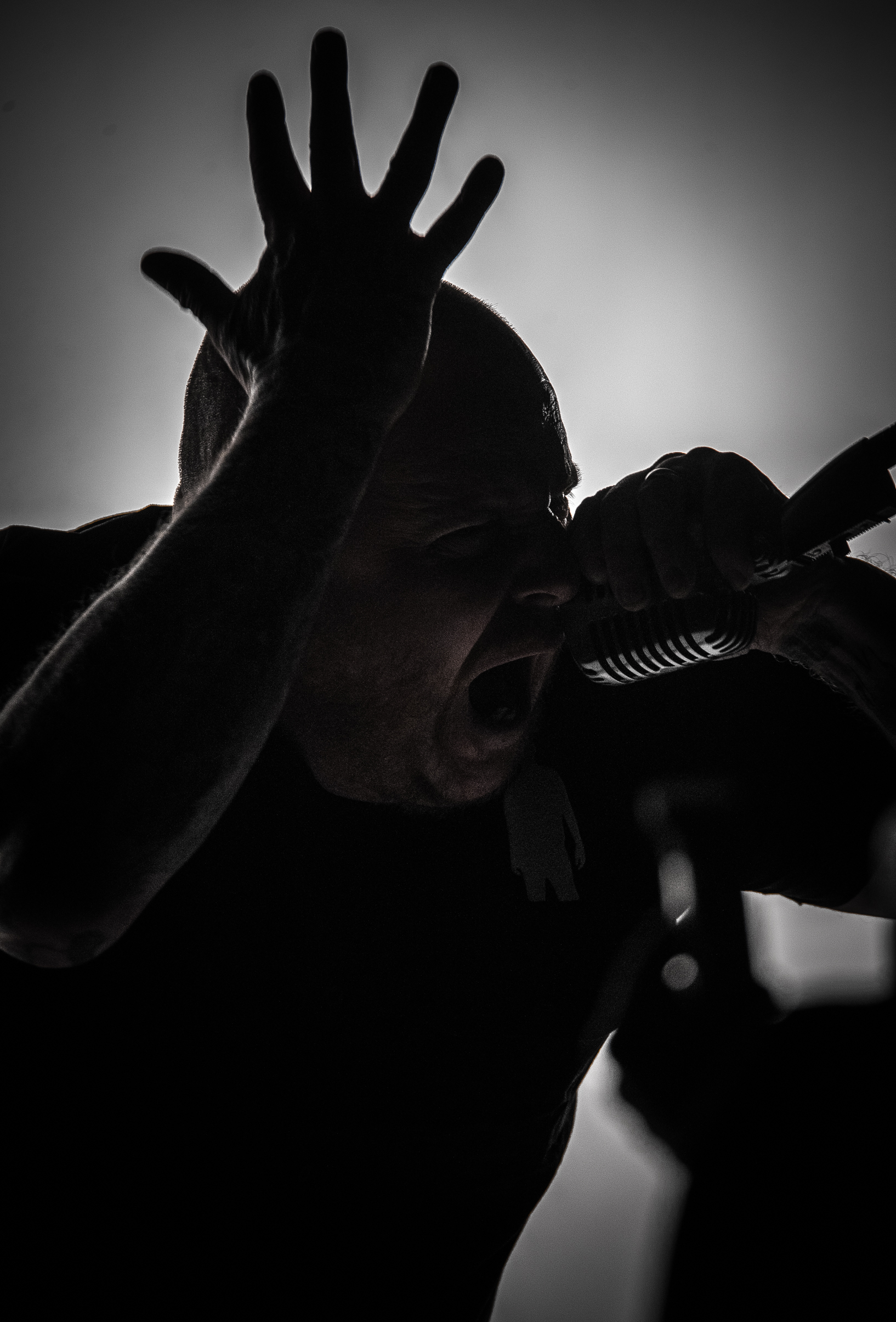 Musicvideo recording session for swedish metal band The Haunted